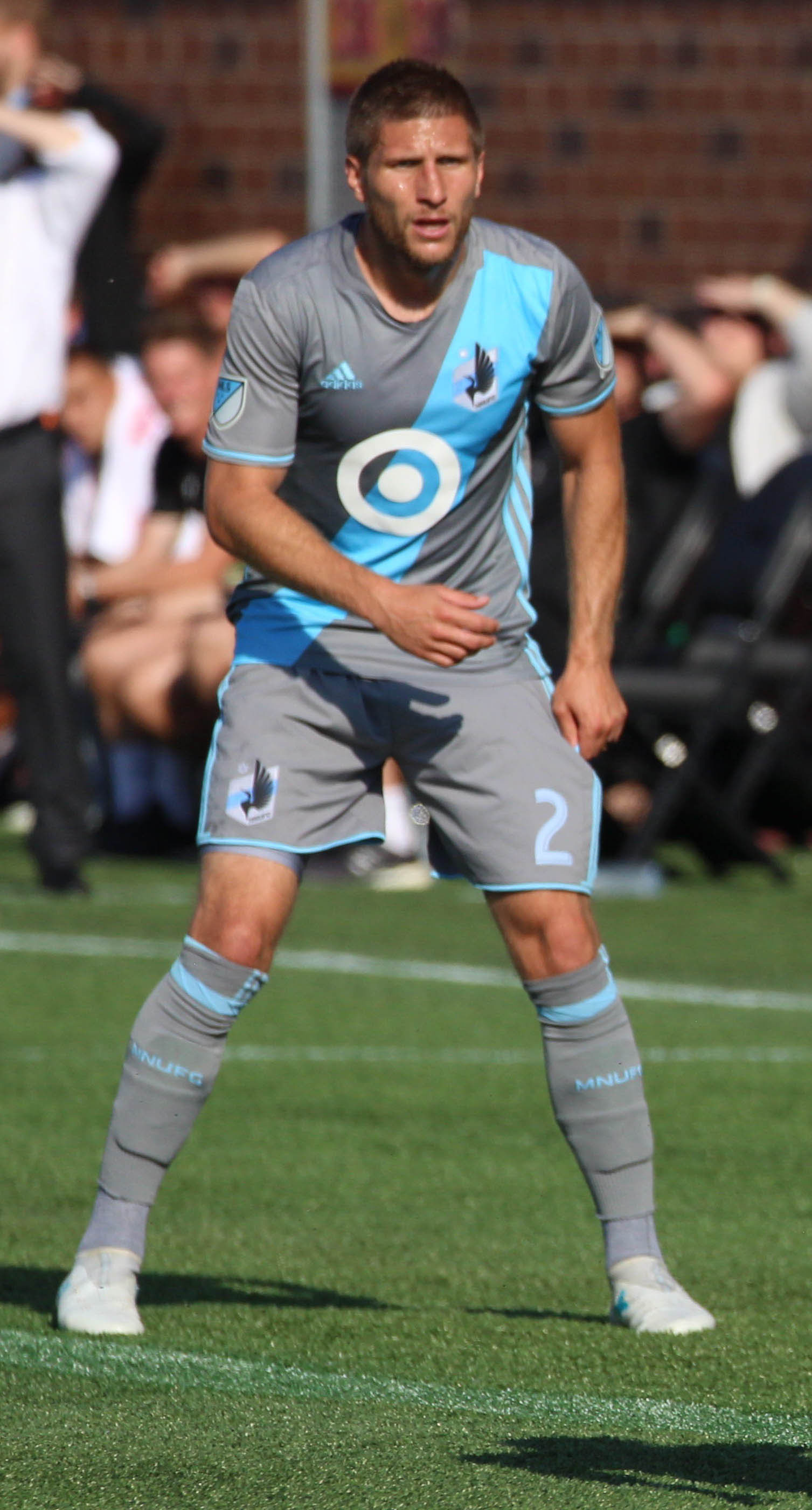 Ibson - Brazil - MN UNITED - MLS